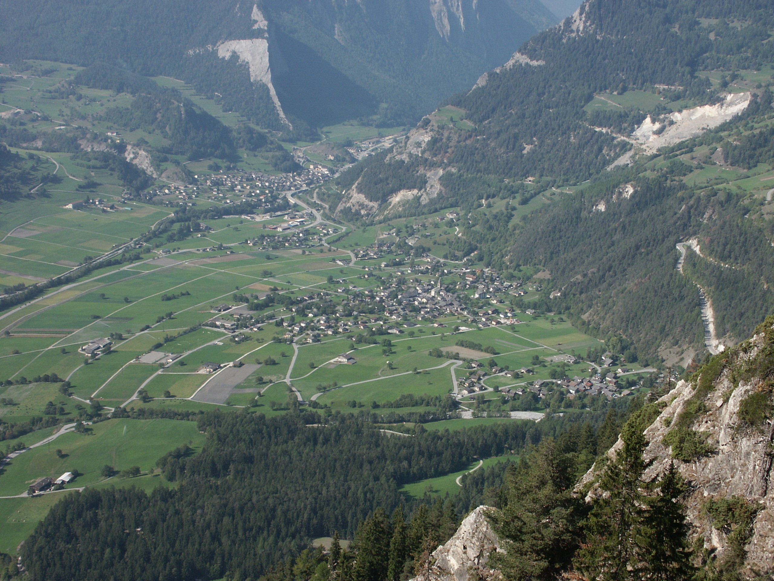 Sembrancher, Etiez, and Vollèges, as seen from St-Christophe, in Bagnes, Valais, Switzerland.